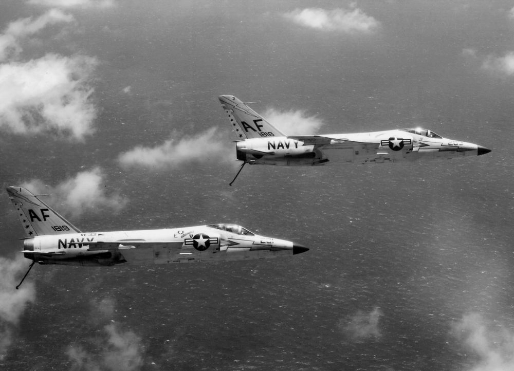 Two U.S. Navy Grumman F11F-1 Tiger fighters (BuNos 141818, 141819) of Fighter Squadron VF-33 "Astronauts" in flight in 1960. VF-33 was assigned to Carrier Air Group 6 (CVG-6) (tail code "AF") aboard the aircraft carrier USS Intrepid (CVA-11).